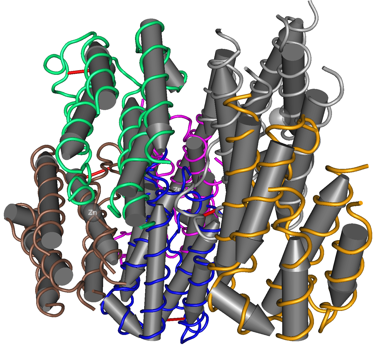 1RH2 Recombinant Human Interferon Alpha 2b